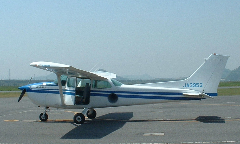 Cessna 172P (Japan registration JA3952) at Kasaoka Airstation (Kasaoka Okayama). Photographed by Carpkazu in May 2006 and released to the public domain.